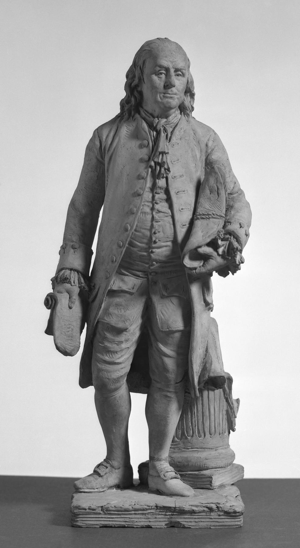 This standing figure of Benjamin Franklin is holding a scroll and has a gilded base. The figure is a model of 1793.